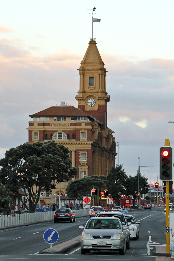 Photo of Quay street, Auckland during the sunrise.